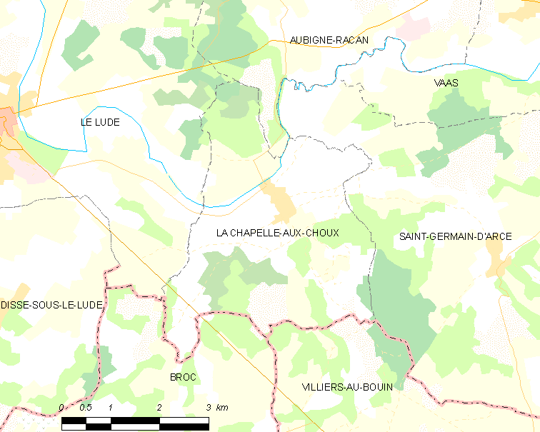 Map of French municipality